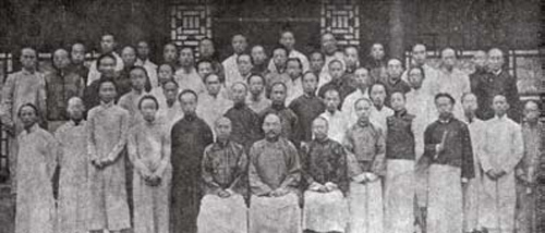 The First Group of Students to study in the USA in 1909, from Tsinghua Xuetang, China.